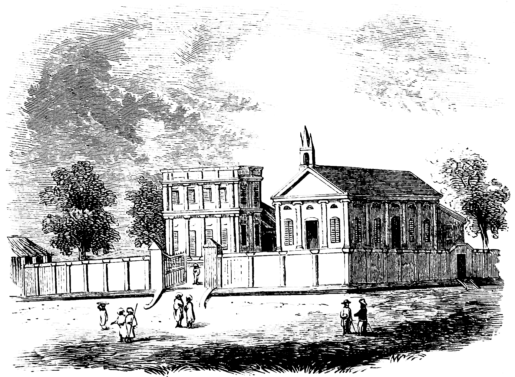 Mission church, school-house, bunglow in Chitadrepettah in 1855. On the right is the church; next to it the school- house, (the high school,) two stories in height, with Venetian doors in the first story and Venetian blinds in the second. The back part of the school-house is but one story in height, with a low roof. Beyond the school is the open bungalow for preaching on week days, so stationed as to attract persons passing along the street, who will not enter a church.